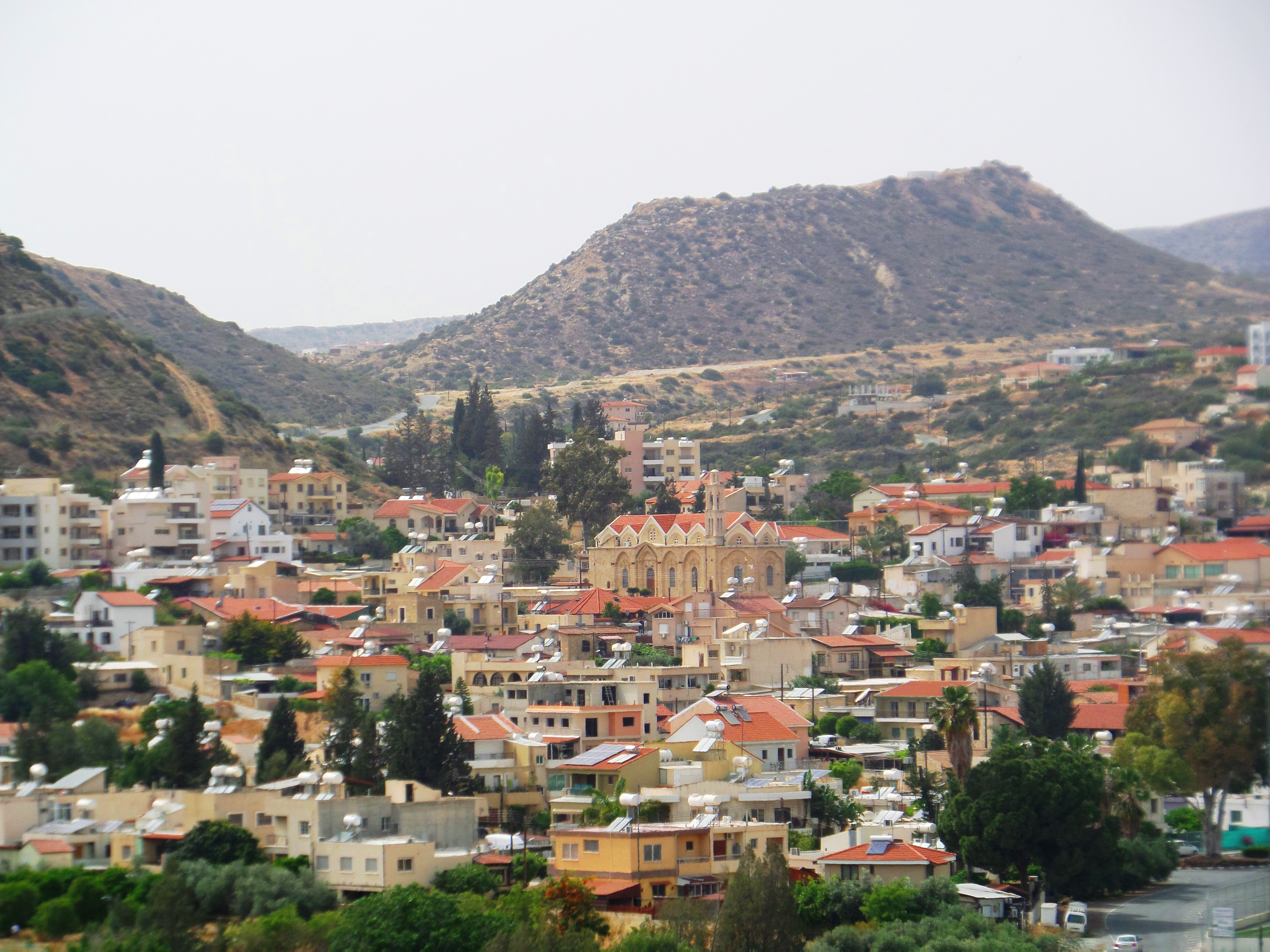 View of the center of Germasogeia.